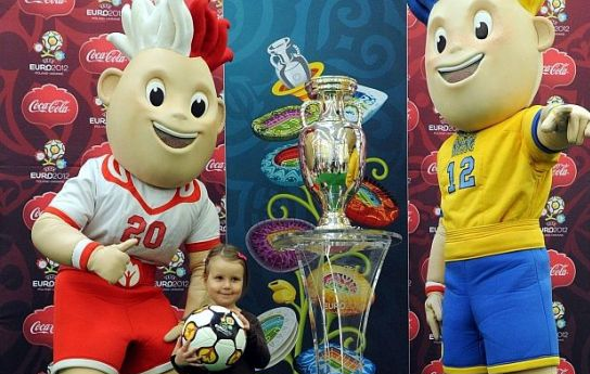 MascotsEuro